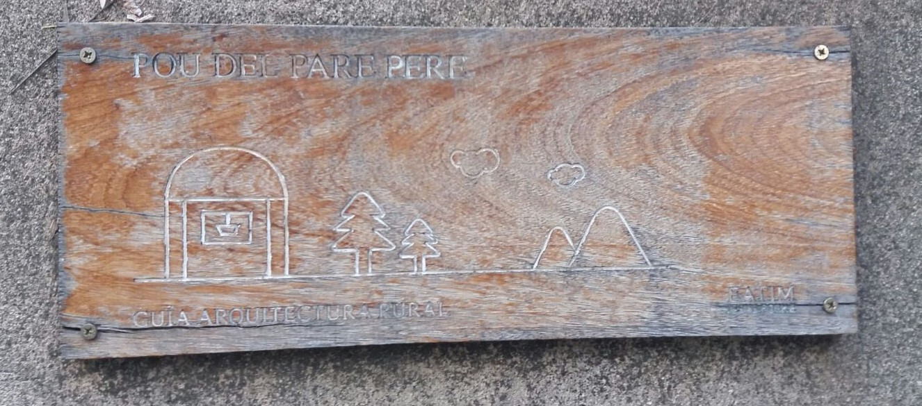 Rétol amb el nom de Pere Esteve i Puig